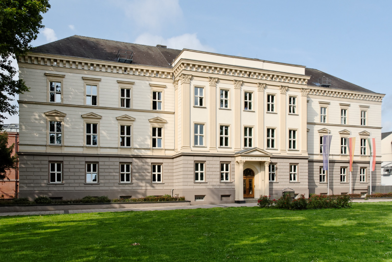 Justizministerium, Martin-Luther-Platz 40 in Düsseldorf-Stadtmitte, Germany This is a photograph of an architectural monument.